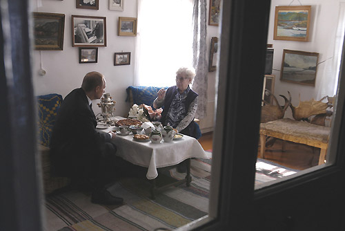 Krasnoyarsk krai, Ovsyanka village, House-museum of writer Viktor Astafyev. Conversation of Vladimir Putin with the widow of the writer, litterateur Maria Semyonovna Koryakina-Astafyeva.